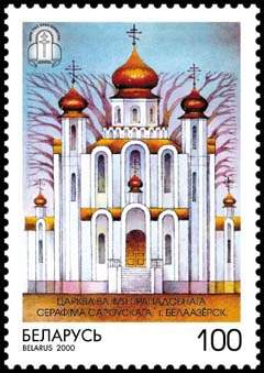 Stamp of Belarus